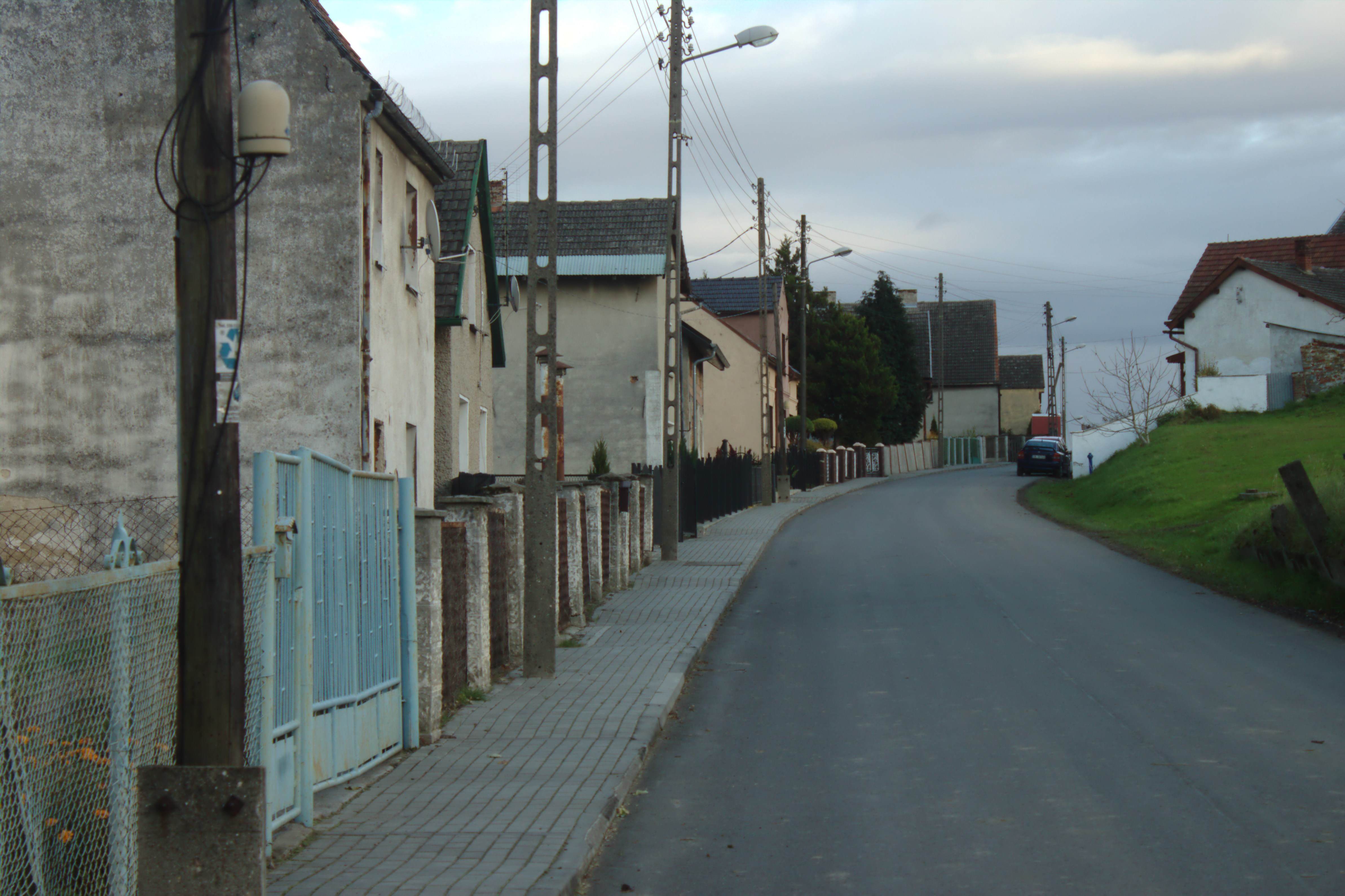 Main road in the village of Grzędzin, Poland